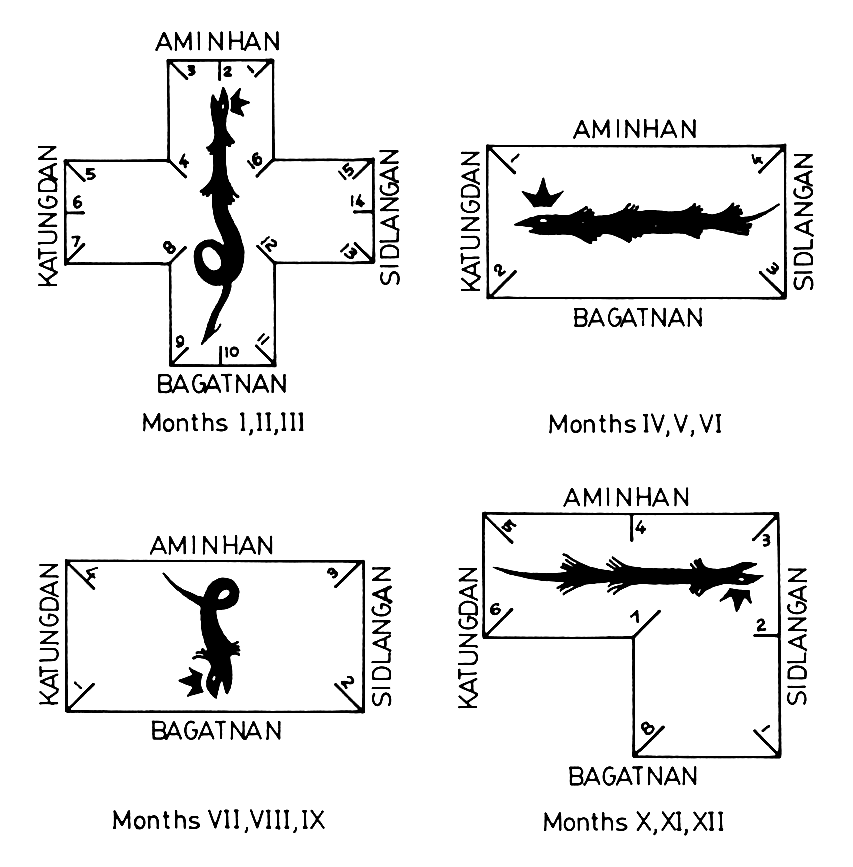 The rotation of Visayan Philippine bakunawa, as explained in Mansueto Porras' Signosan (1919)